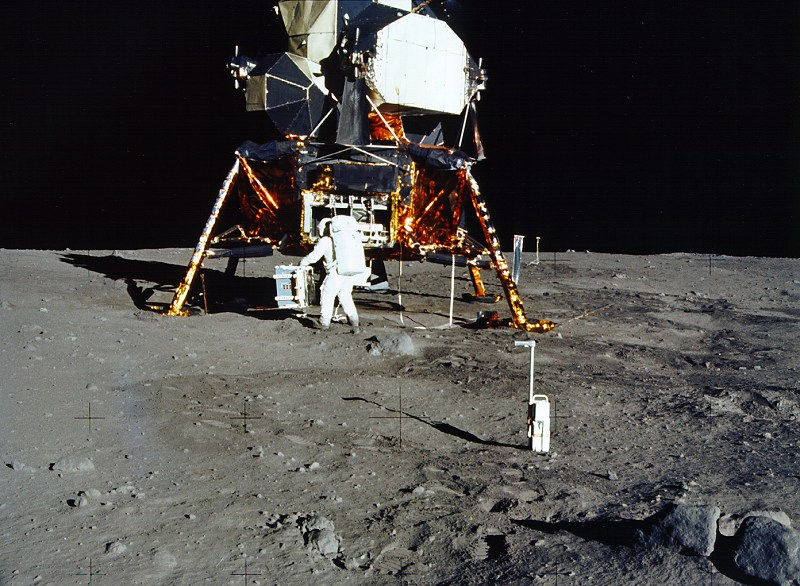 1998 scan of Apollo 11 photo AS11-40-5931 Original caption: Astronaut Edwin E. Aldrin Jr., lunar module pilot, prepares to deploy the Early Apollo Scientific Experiments Package (EASEP) on the surface of the moon during the Apollo 11 extravehicular activity. Astronaut Neil A. Armstrong, commander, took this photograph with a 70mm lunar surface camera. In the foreground is the Apollo 11 35mm stereo close-up camera.